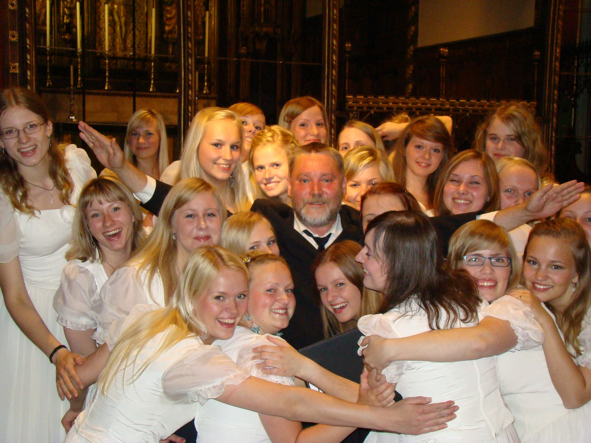 Estonian TV Girls' Choir with conductor Urmas Sisask at St Paul's cathedral in London. After the premiere of "Veni Creator Spiritus"